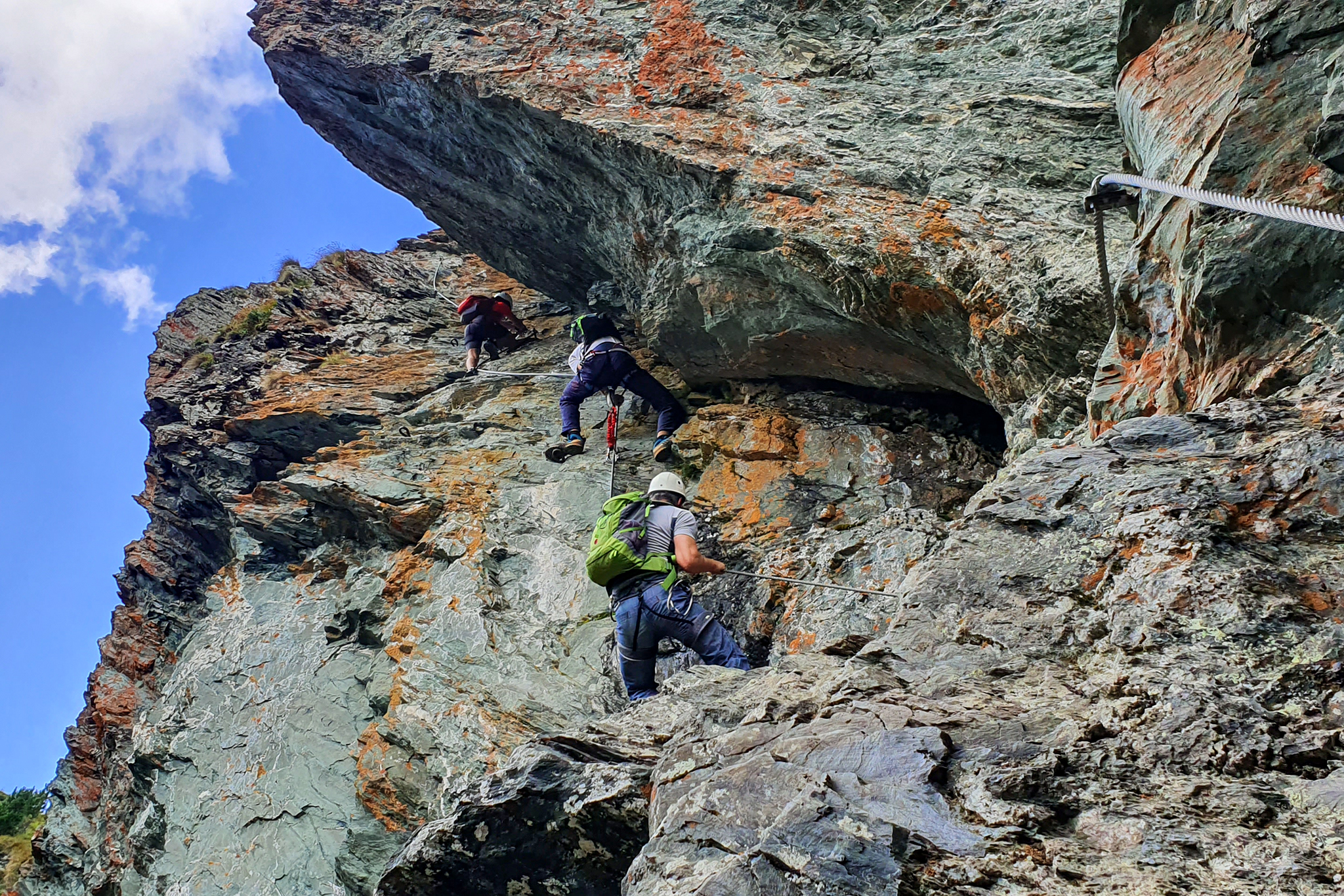 Via ferrata (fixed rope route) on the Falkert mountain (2308 m) in Carinthia, Austria.